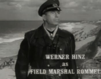 Werner Hinz in The Longest Day - trailer (cropped screenshot)